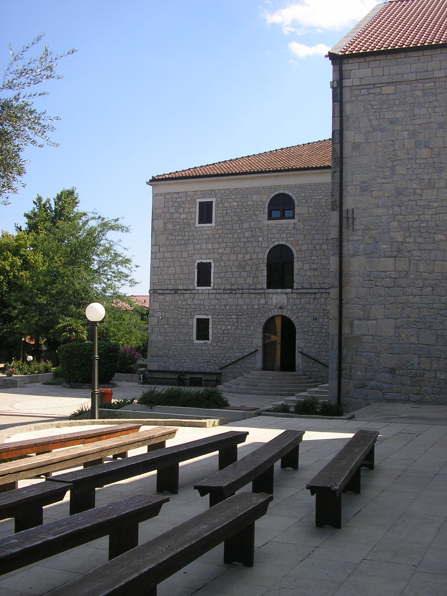 Franciscian monastery and churc in Humac, Ljubuški